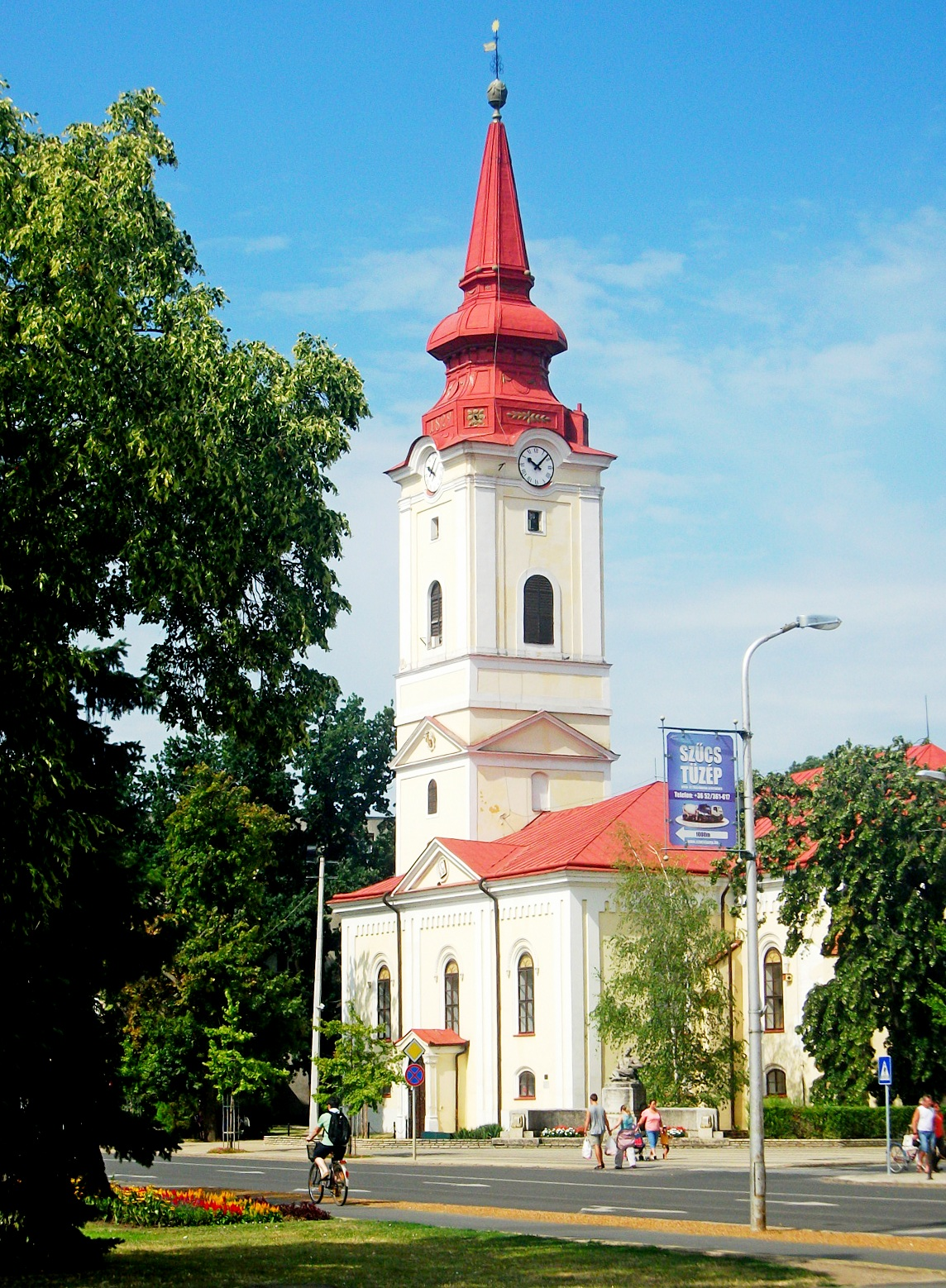 Reformed church in Hajdúszoboszló.